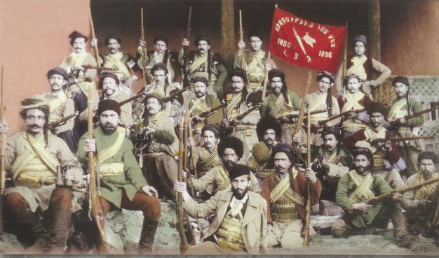 Colored picture of fedayees under the banner of the ARF, picture taken during the late 1800s, around 1890-1896